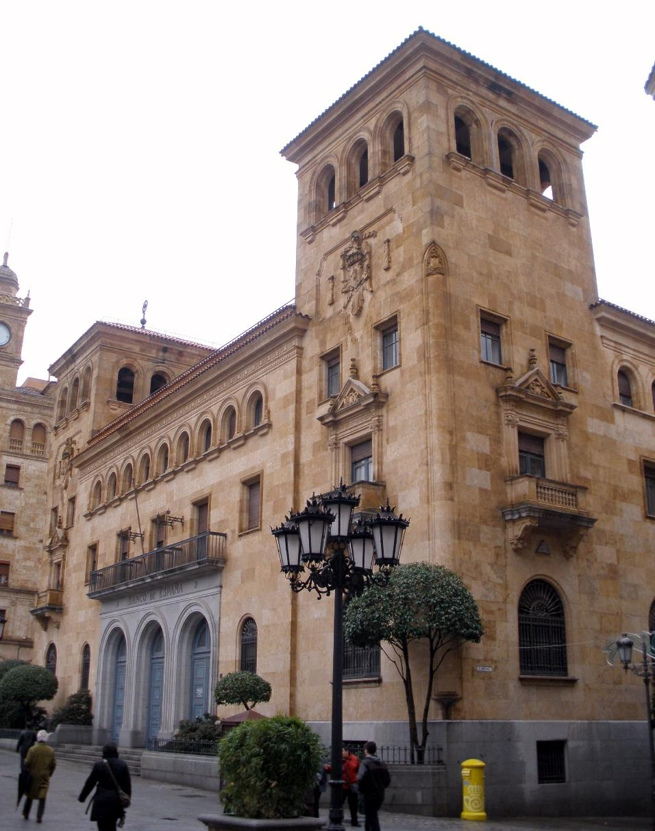 Antigua delegación del Banco de España en Salamanca (España)